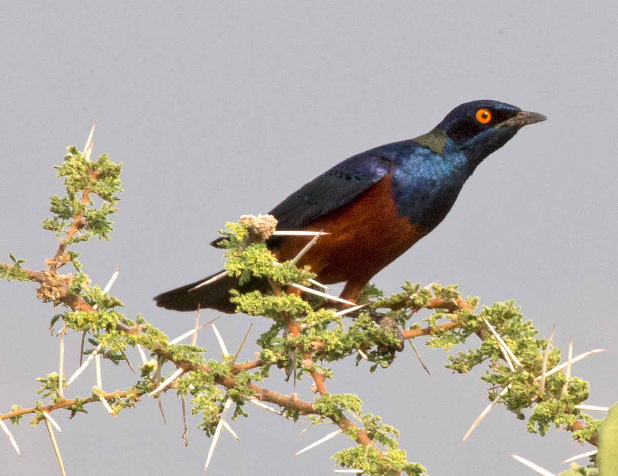 Shelley's starling (Lamprotornis shelleyi) at Omo, South Ethopia 2015